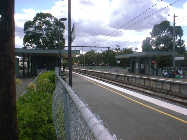 Picture taken myself on 22/4/2006. Anyone can use this image for any reason.